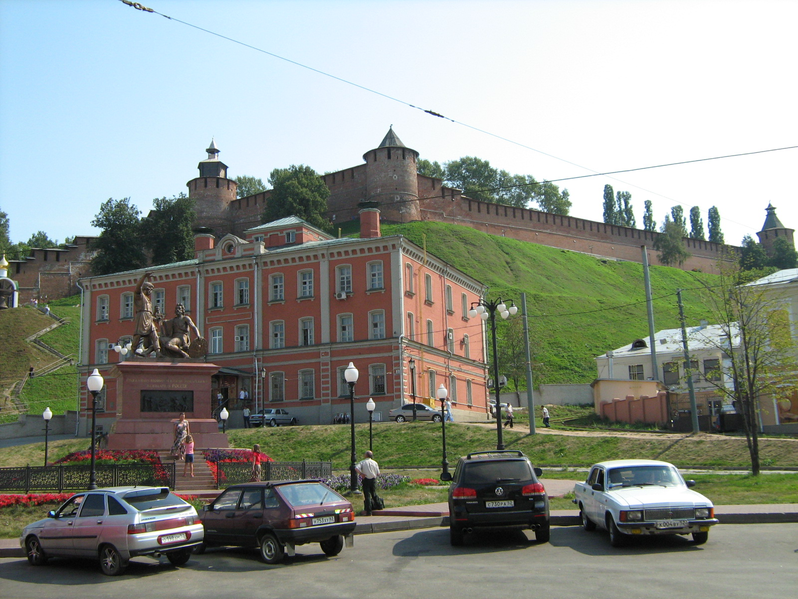 Skoba Square in Nizhny Novgorod. In the foreground, Minin and Pozharsky Monument, and former Bugrov's homeless shelter (now the office of the Federal Migration Service). In the background, Nizhny Novgorod Kremlin, with its Chasovaya (Clock), Severnaya (Northern) and Koromyslova (Carrying-pole) Towers (listed left-to-right)